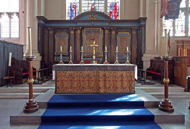 St Sepulchre without Newgate, Holborn Viaduct, London EC1 - Sanctuary, near to London, City of London, Great Britain.